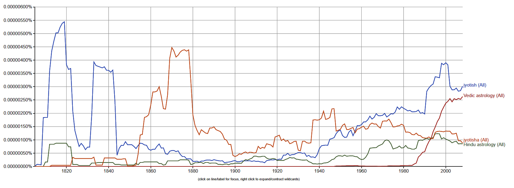 English nomenclature of the last few centuries for Jyotish- called Indian or Vedic or Hindu Astrology.